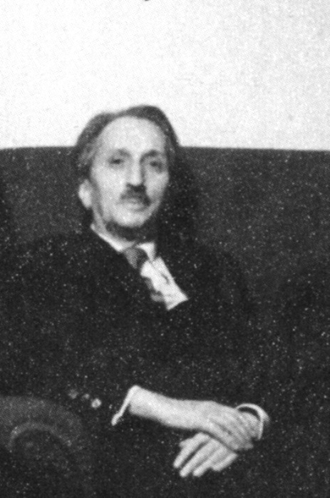 Barbu Lăzăreanu, the Romanian academician, photographed ca. 1950--1957.